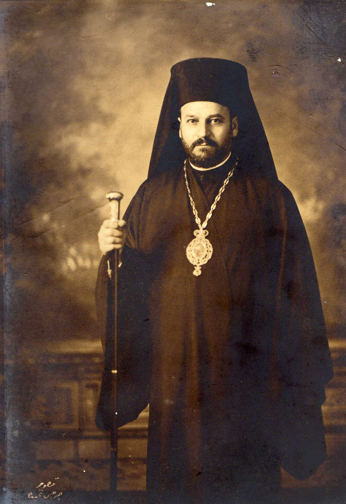 Metropolitan Samuel David of Toledo